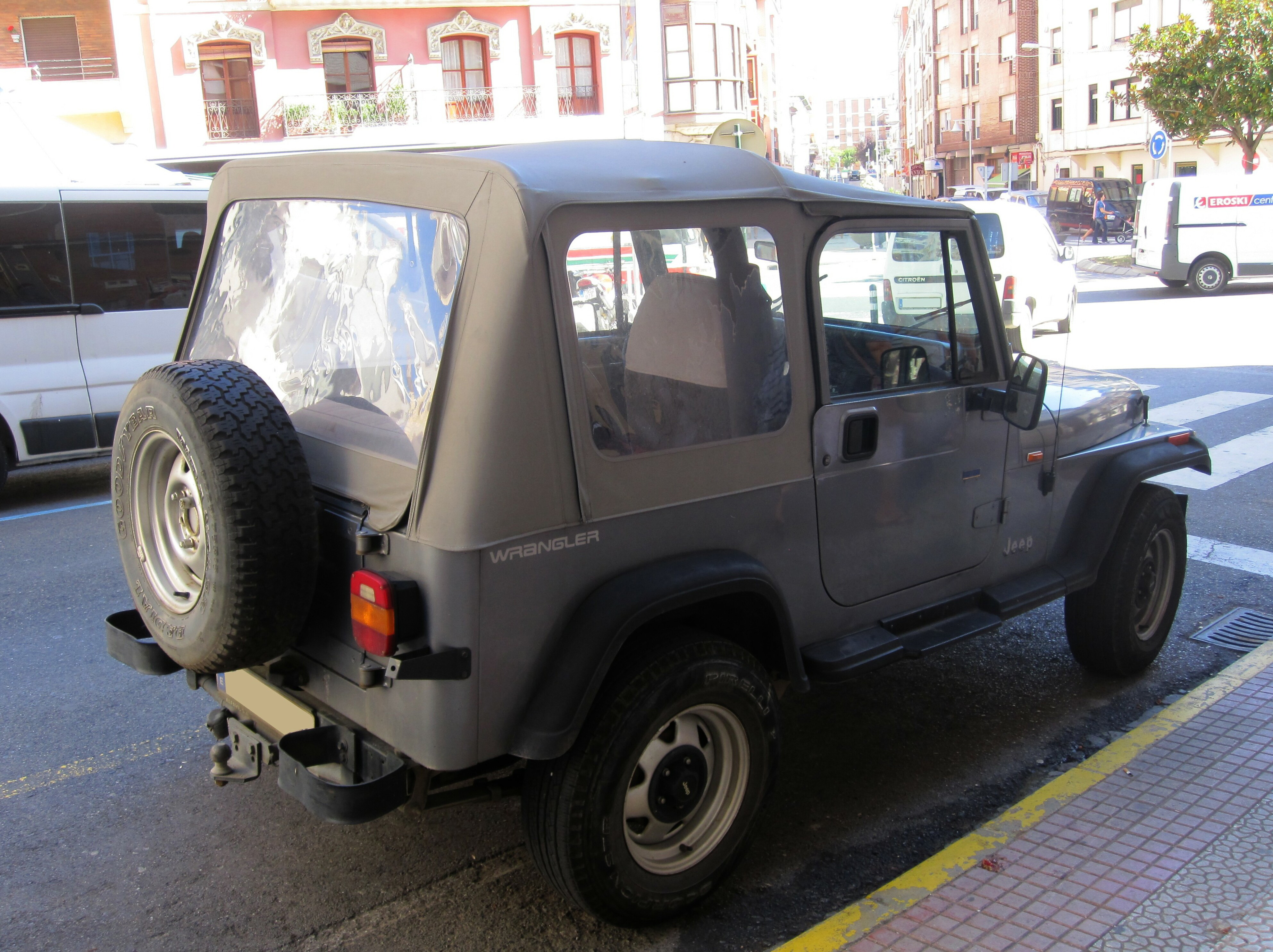 Don't know what it has that it makes me like it a lot. Ever since I was young the Wrangler always caught my attention. Probably because of the essence of the ol' Willys it has mixed with modernity. A car I would really like to try out too. It had 2001 plates (too new for it) and was seen in Castro Urdiales (Cantabria).